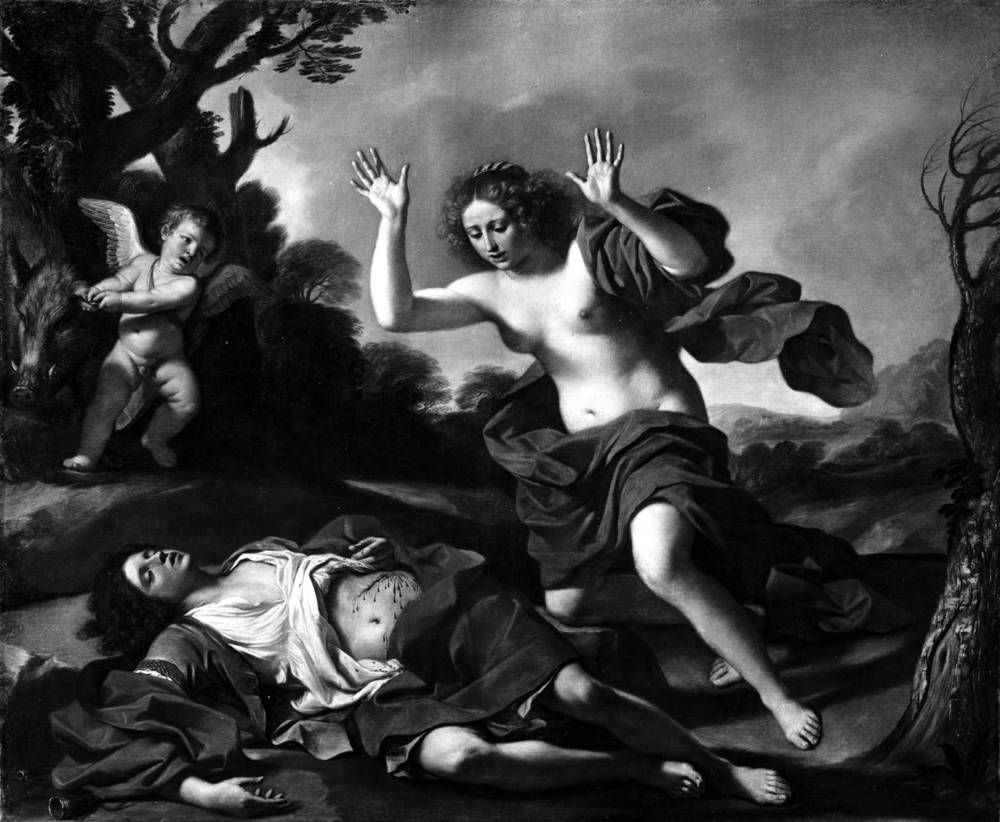 'Venus and the corpse of Adonis', by Guercino. This painting was part of the collections of the Gemäldegalerie Alte Meister in Dresden and it was destroyed during the Second World War, in 1945. - Dimensions: 206 x 252 cm - Oil on canvas